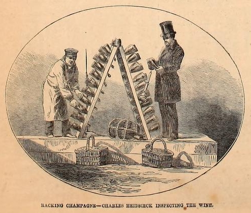 Inspection of the wine